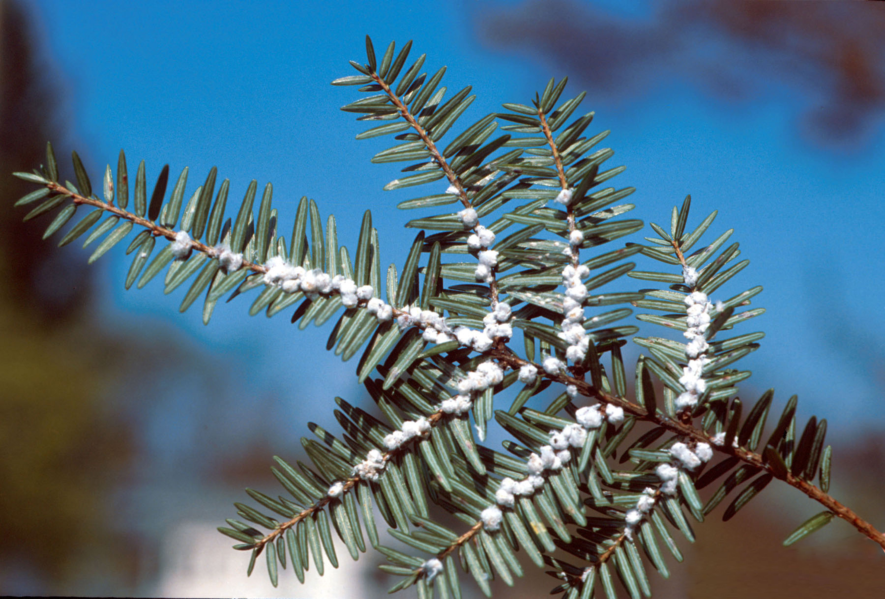 Adelges tsugae Annand Host: eastern hemlock Tsuga canadensis (L.) Carr. Common Name: hemlock woolly adelgid Photographer: Michael Montgomery, USDA Forest Service, United States Descriptor: Infestation Description: Ovisacs on the underside of a branch Image taken in: United States